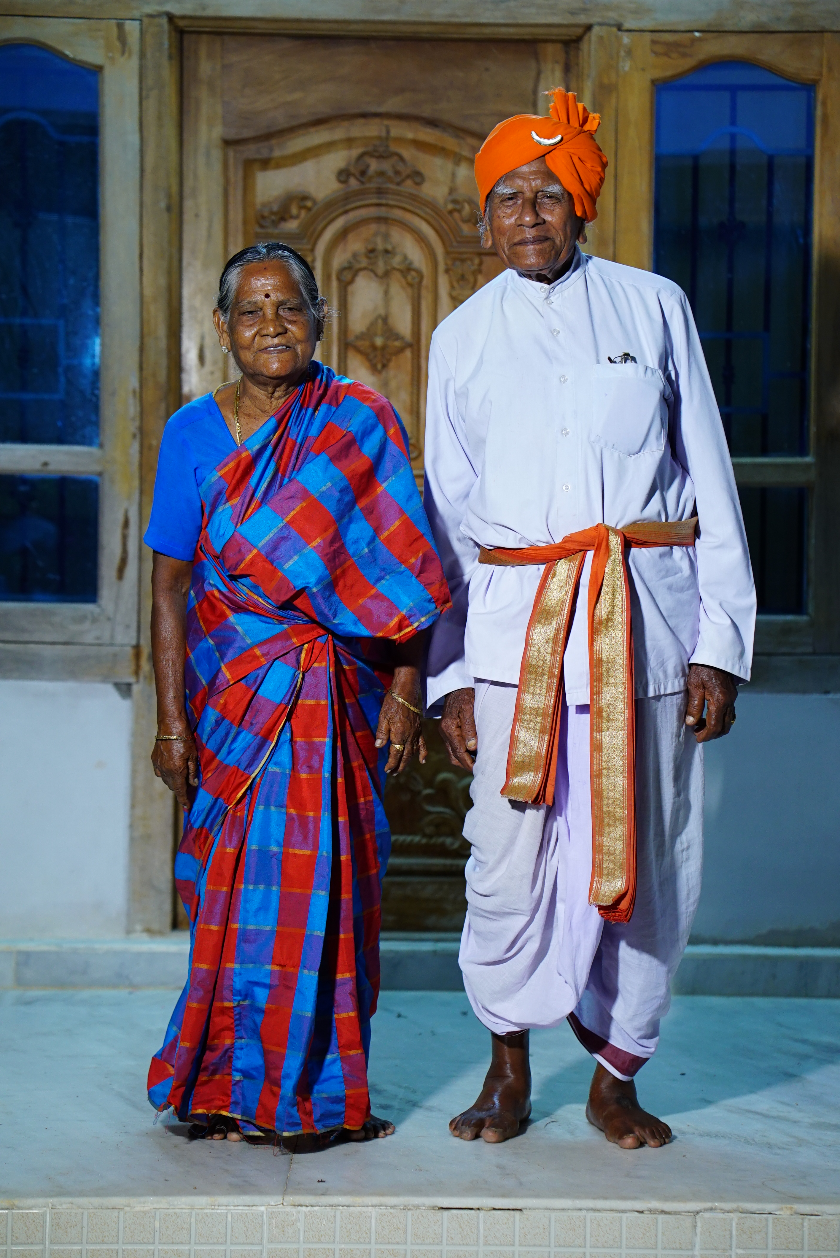 Meivazhi Ilamkalaikottu Ananthar Couple